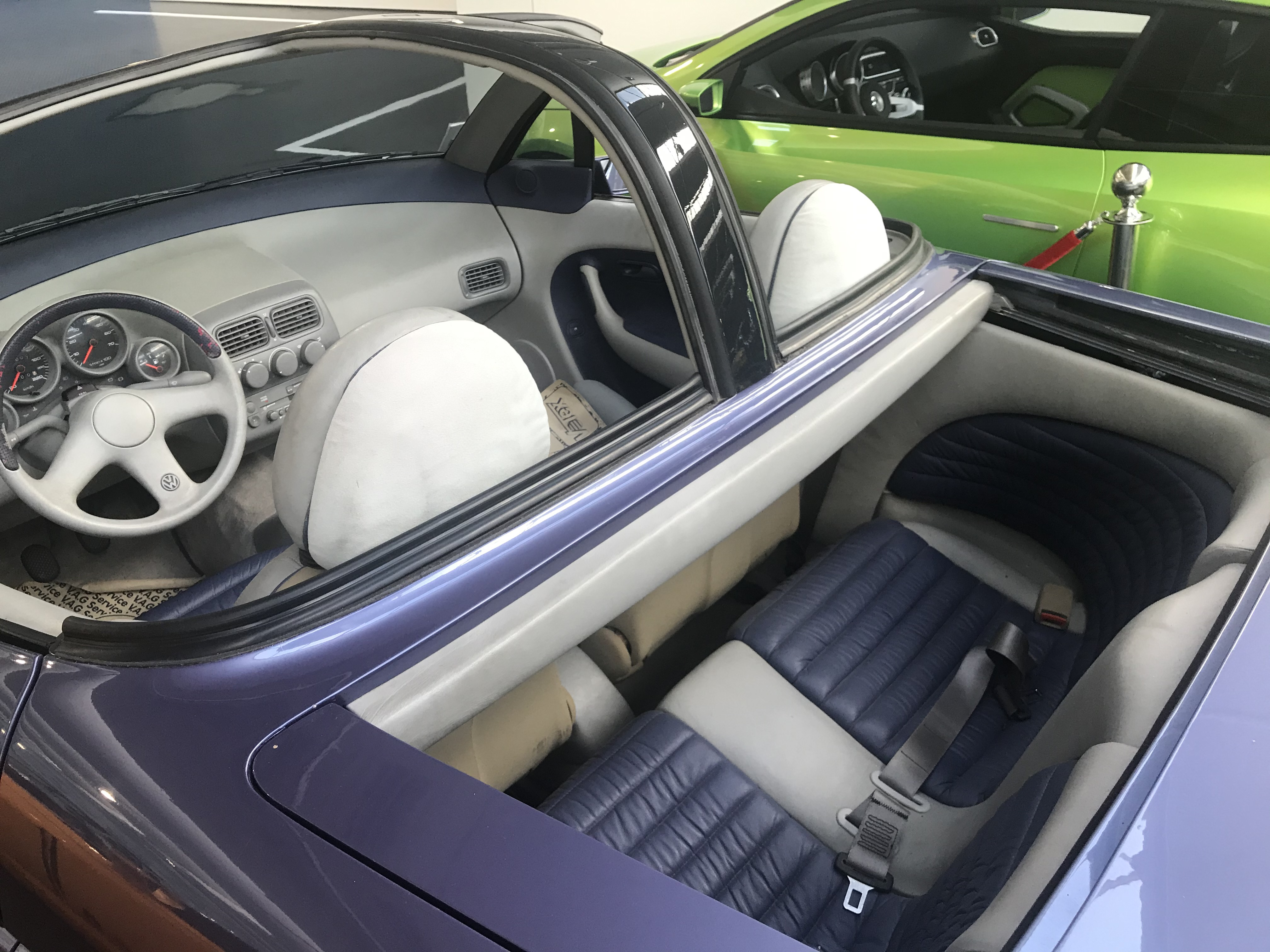 VW Vario 2 interrior with open passenger gap.